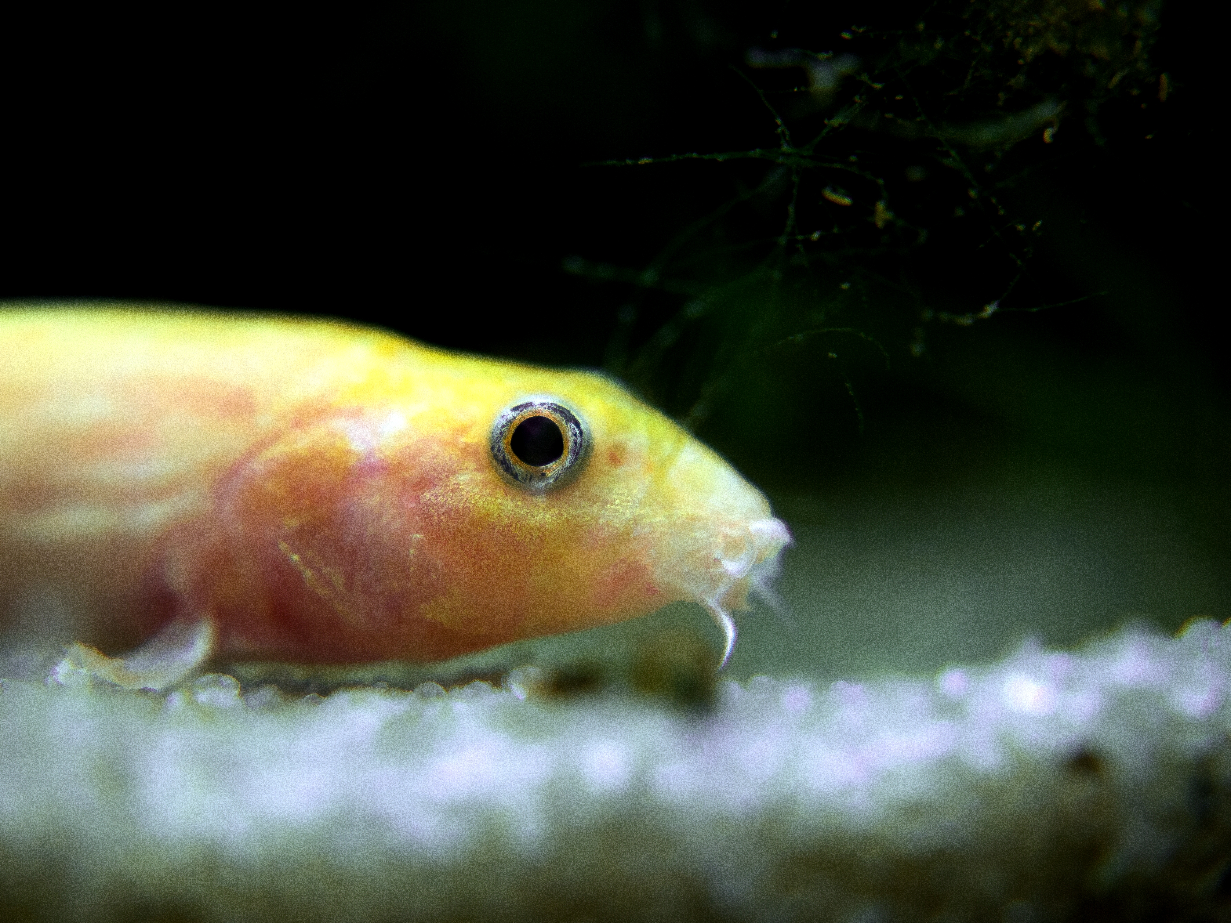 Weather Loach (M. anguillicaudatus) Macro